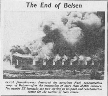 British flamethrowers destroy the Belsen concentration camp after liberation. The image title reads: "The End of Belsen" while the caption reads: "British flamethrowers destroyed the notorious Nazi concentration camp of Belsen - after the evacuation of more than 28,000 inmates. The nearby SS barracks are now serving as hospital and rehabilitation centre for the victims of Nazi terror."